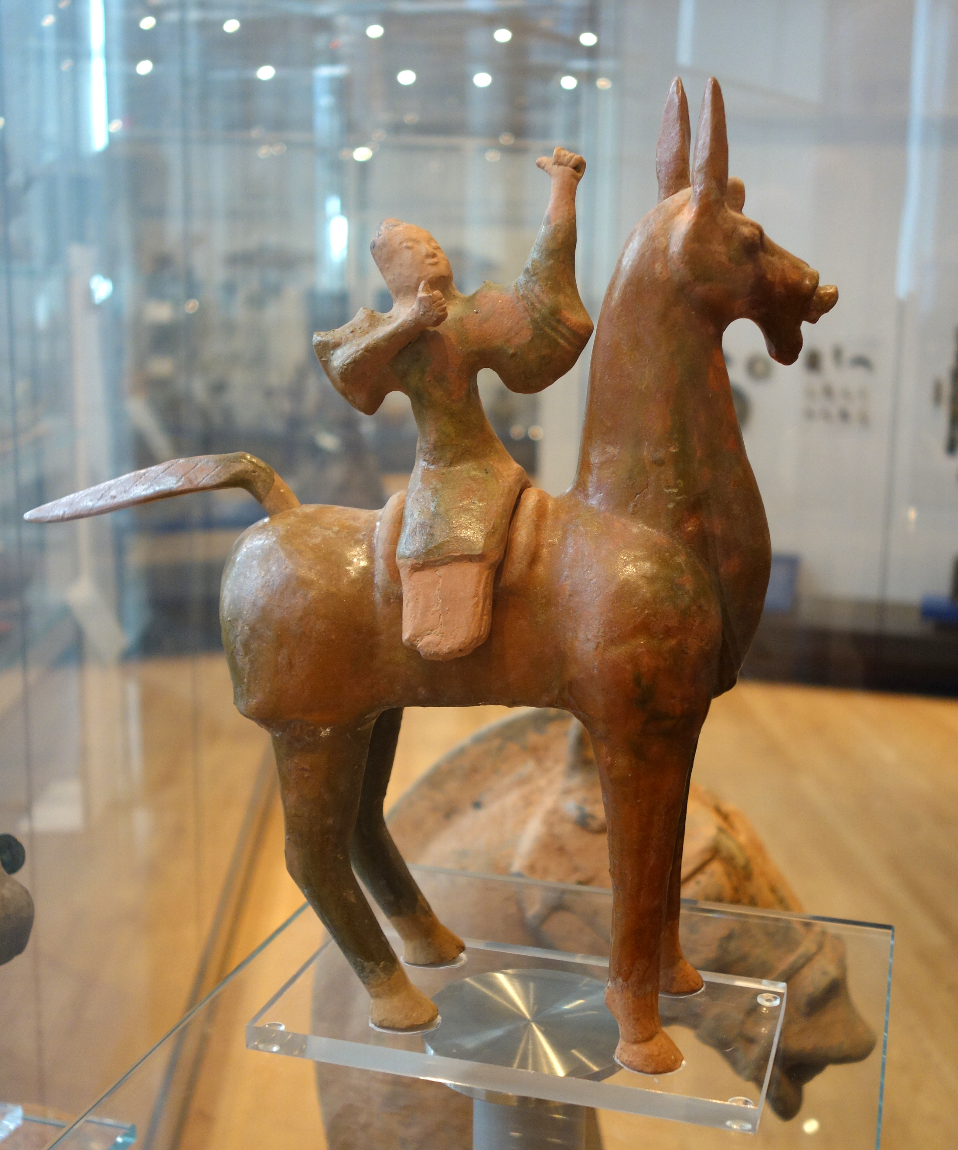 Exhibit in the Royal Ontario Museum, Toronto, Ontario, Canada. This work is old enough so that it is in the public domain.